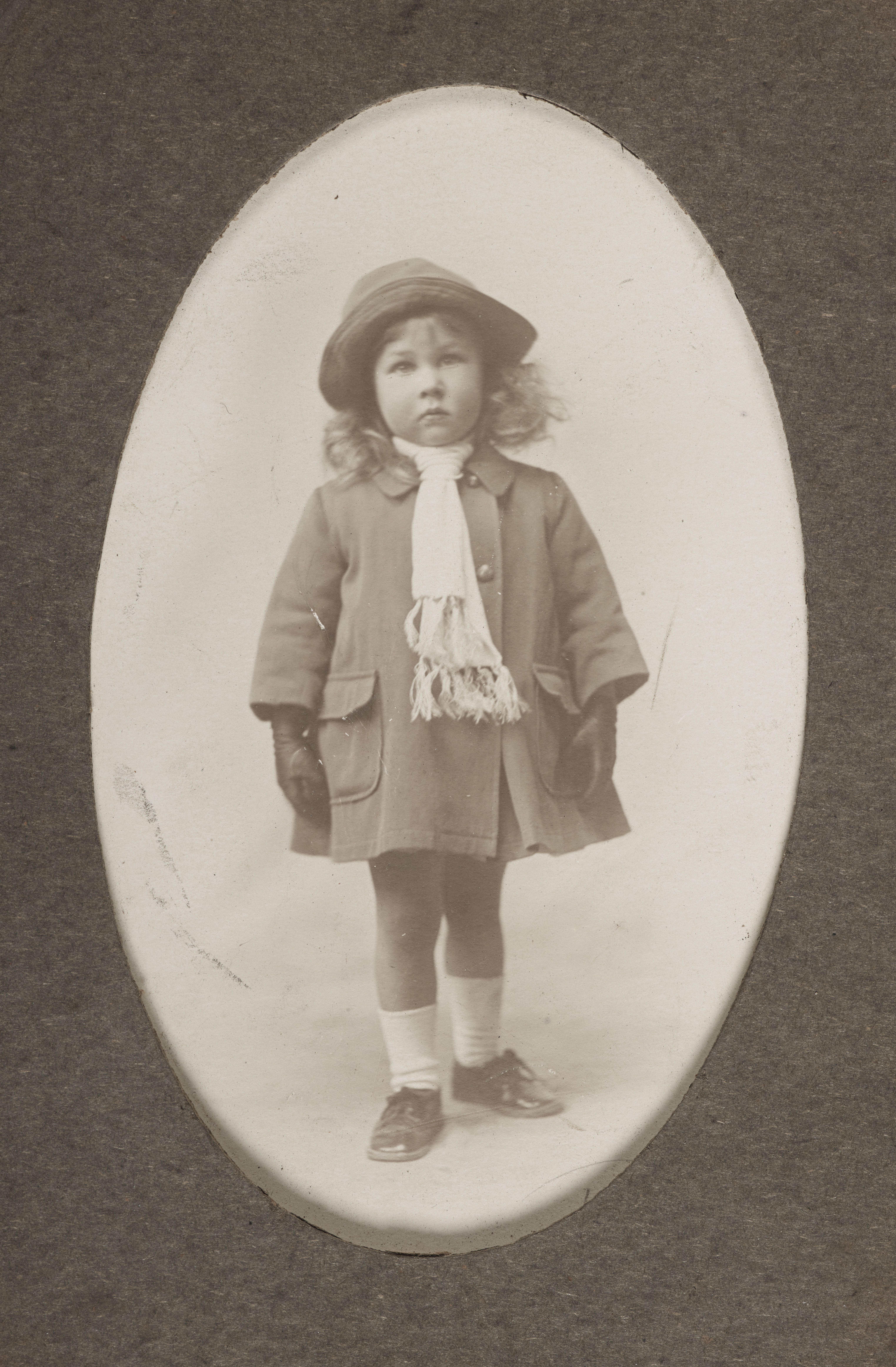 Young girl standing, 1910-1919, Gisborne, by Miss Norah Carter. Purchased 2013. Te Papa (O.040811)